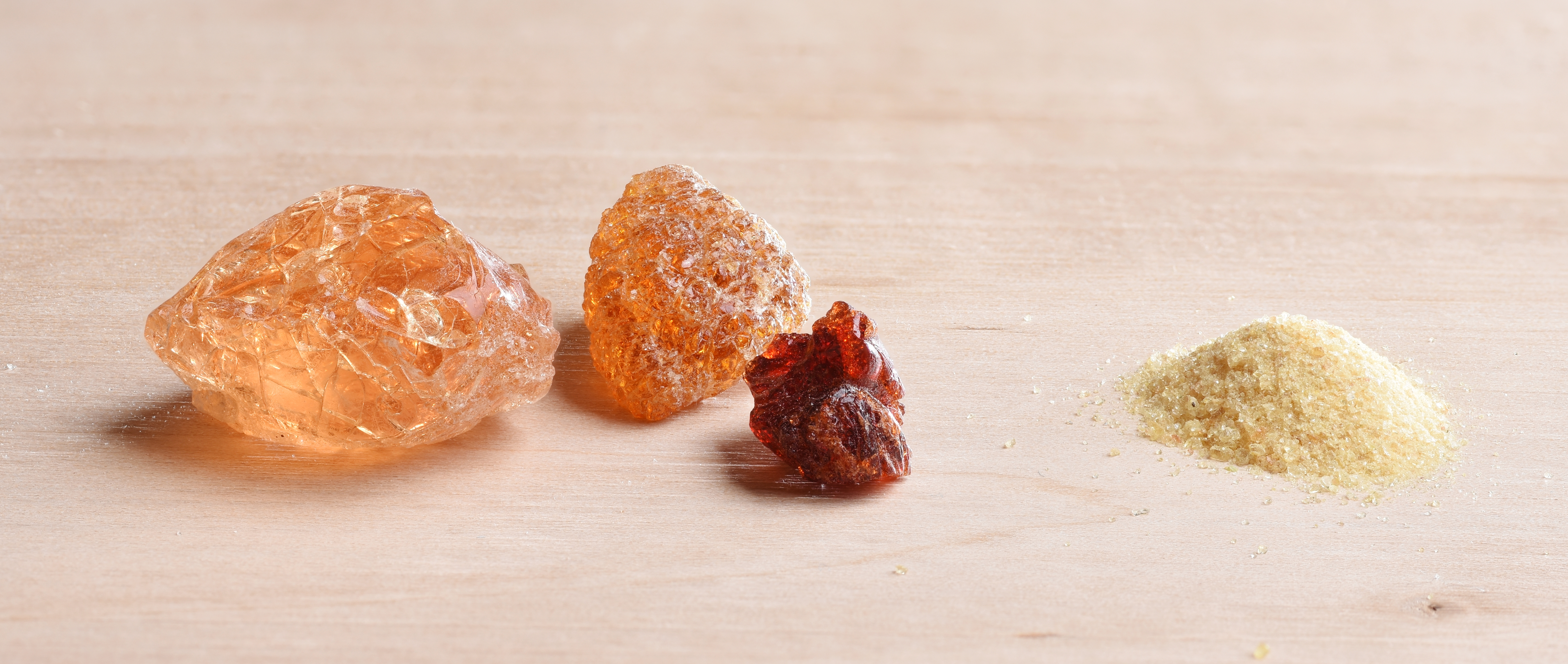 Pieces and powder of raw gum arabic. Stacked from 9 images with Zerene Stacker.